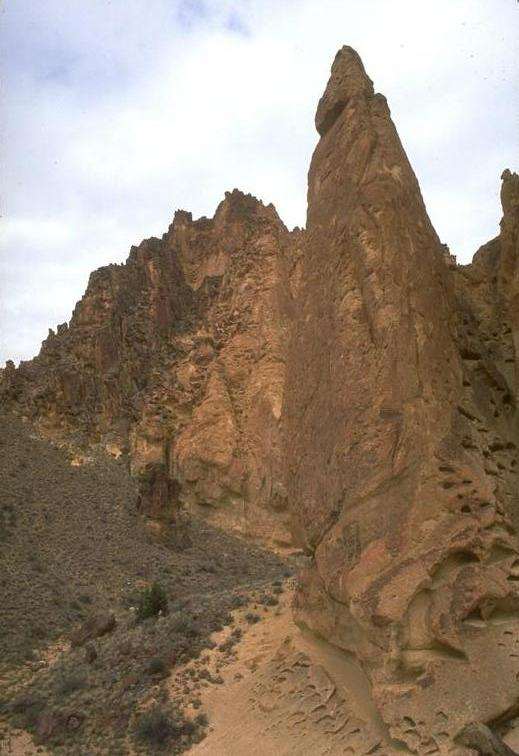 Leslie Gulch, large rock spire, Malheur County, Oregon, 2008.